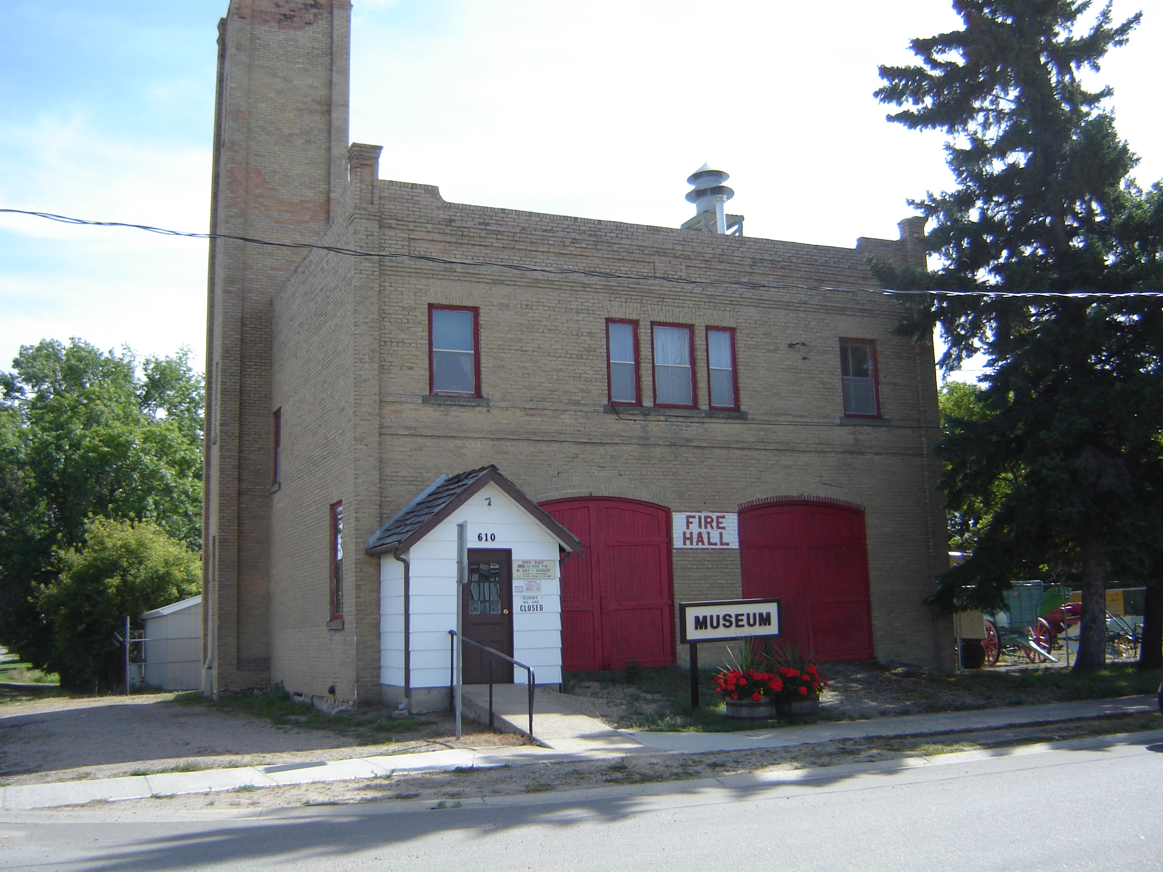 Museum Indian Head Saskatchewan MUSEUMS ASSOCIATION OF SASKATCHEWAN -Indian Head-Indian Head Museum